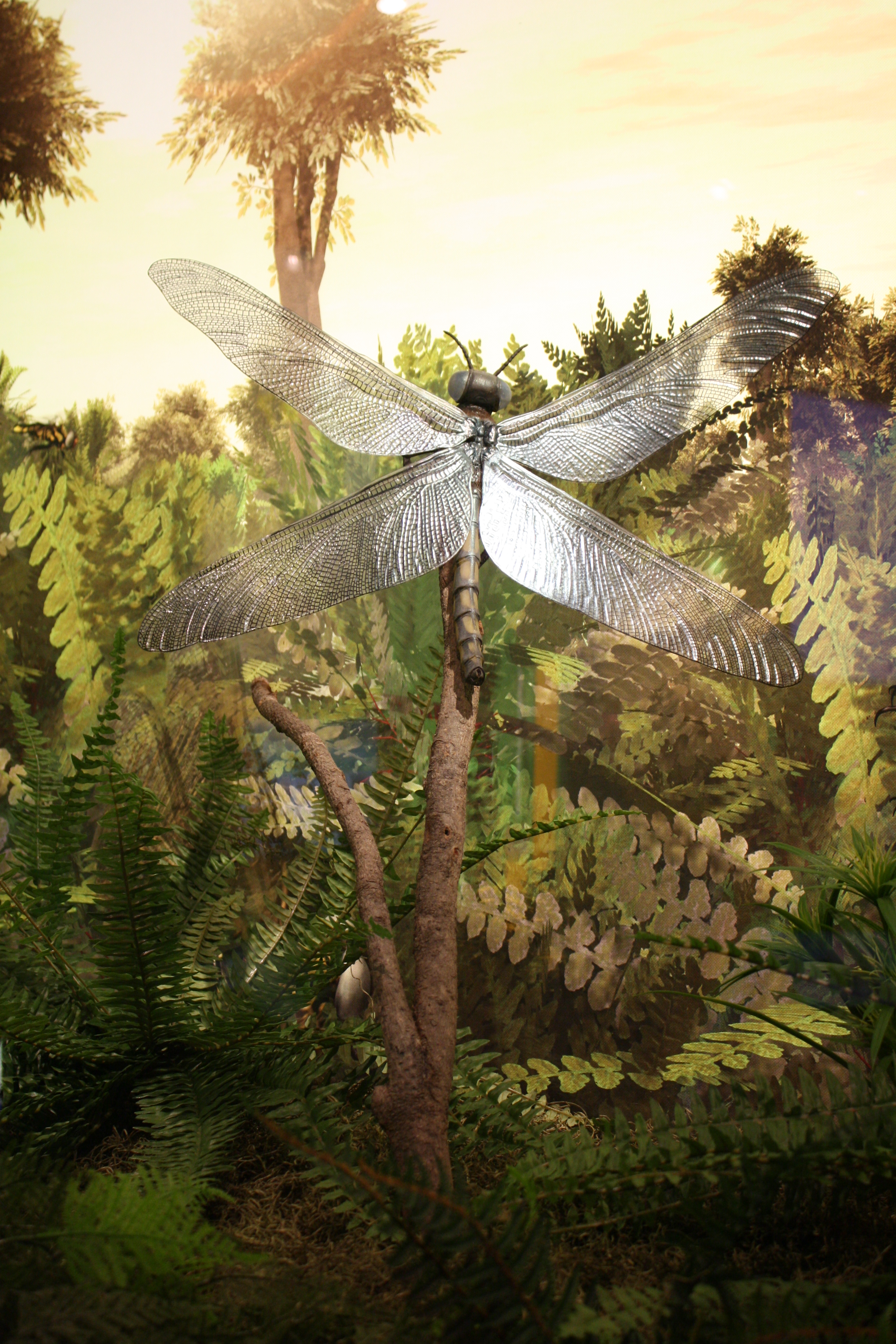 Prehistoric Dragonfly (Meganeura manyi) Wikipedia Loves Art at the Houston Museum of Natural Science This photo of item # [1] at the Houston Museum of Natural Science was contributed under the team name "The_Wookies" as part of the Wikipedia Loves Art project in February 2009. Houston Museum of Natural Science The original photograph on Flickr was taken by andytang20—please add a comment to the original Flickr page whenever a use has been made on Wikipedia or another project. Project galleries on Flickr: this institution, this team